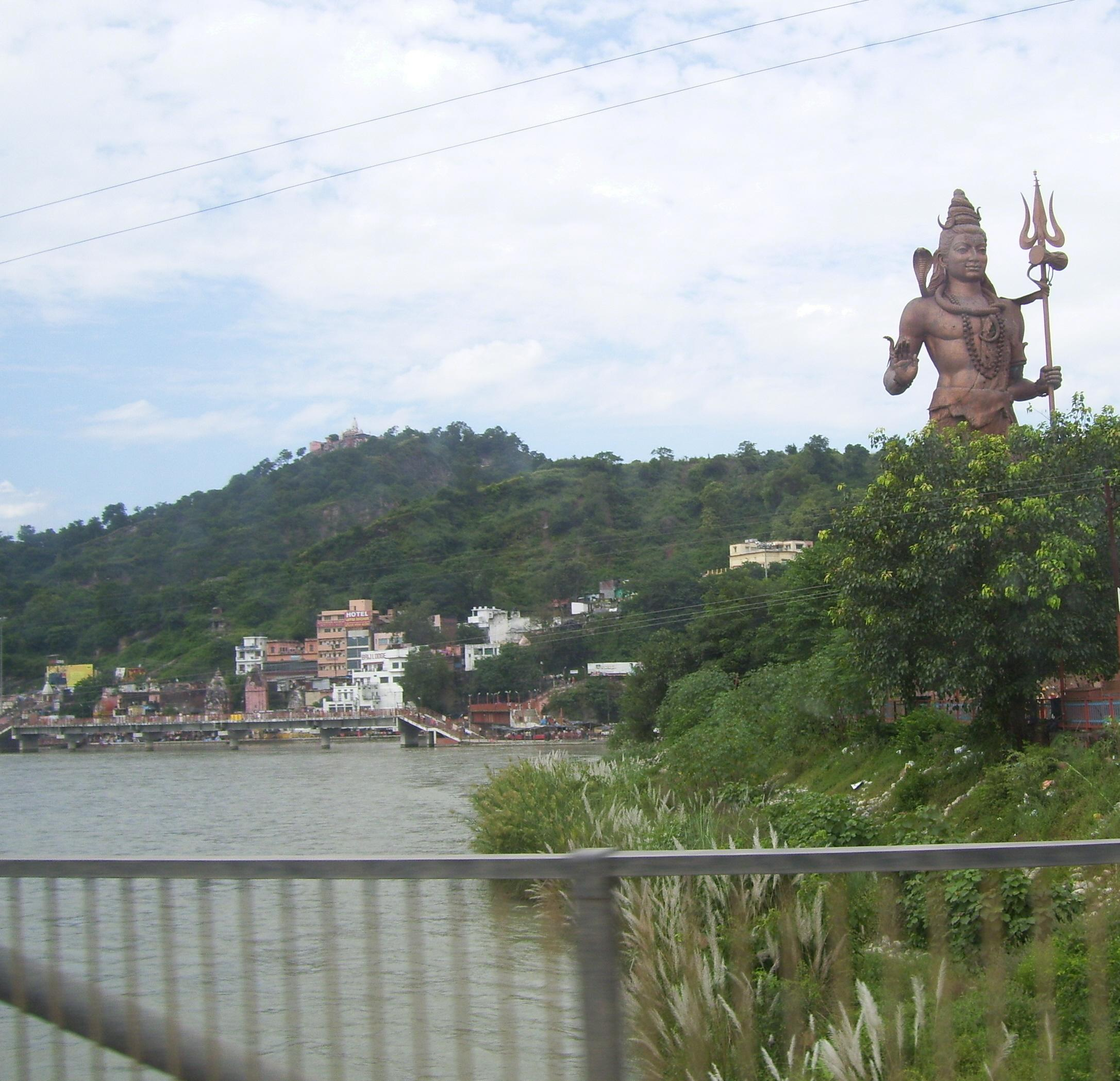 The Ganges in Haridwar, India, as it leaves the mountains for the Gangetic Plain.